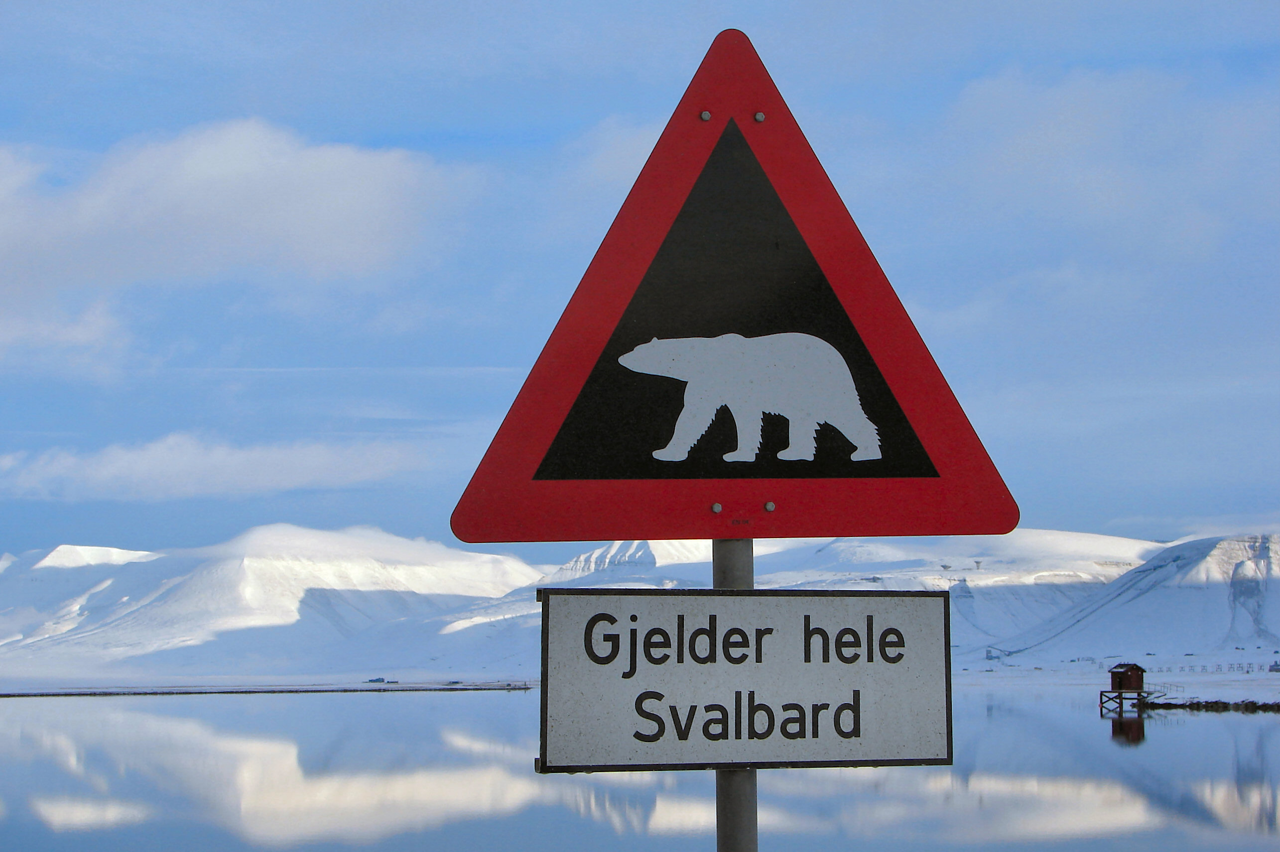 A road sign just outside Longyearbyen, Spitzbergen, Norway, warning of danger of meeting polar bears. "Gjelder hele Svalbard" means that the warning goes for the entire island of Svalbard.